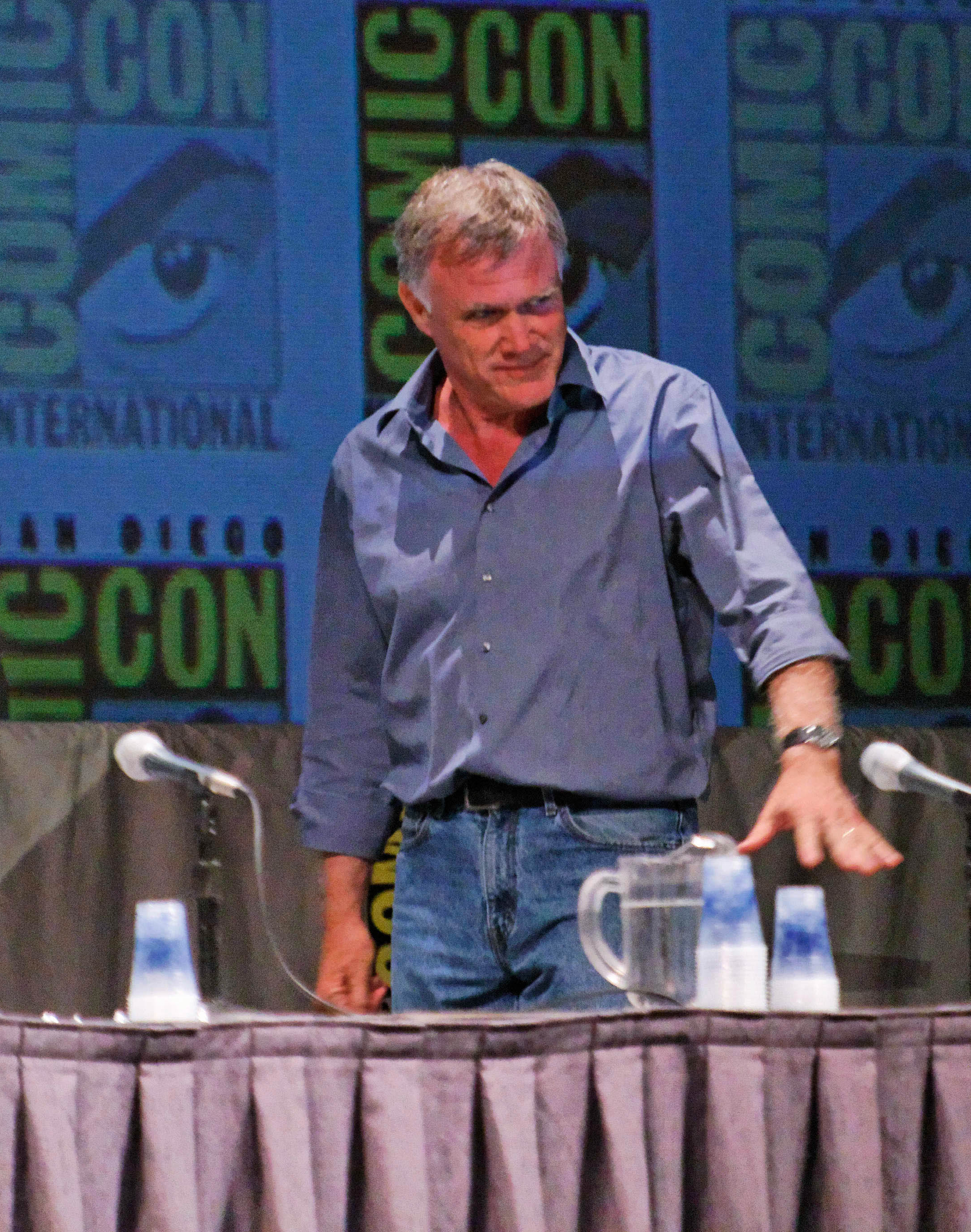 Joe Johnston at the 2010 San Deigo Comic-Con International.